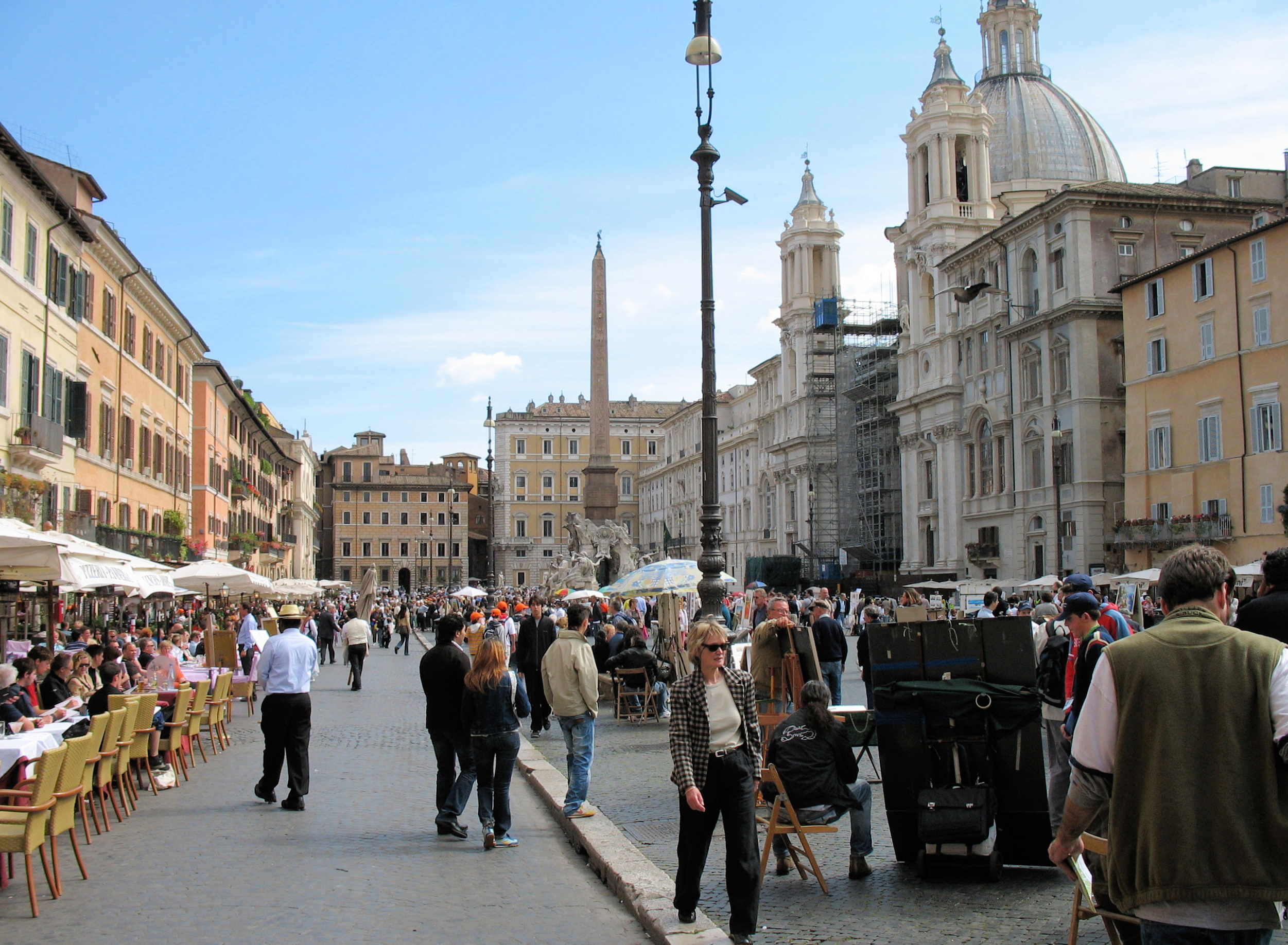 Navona, View of the Piazza, Rome, Italy